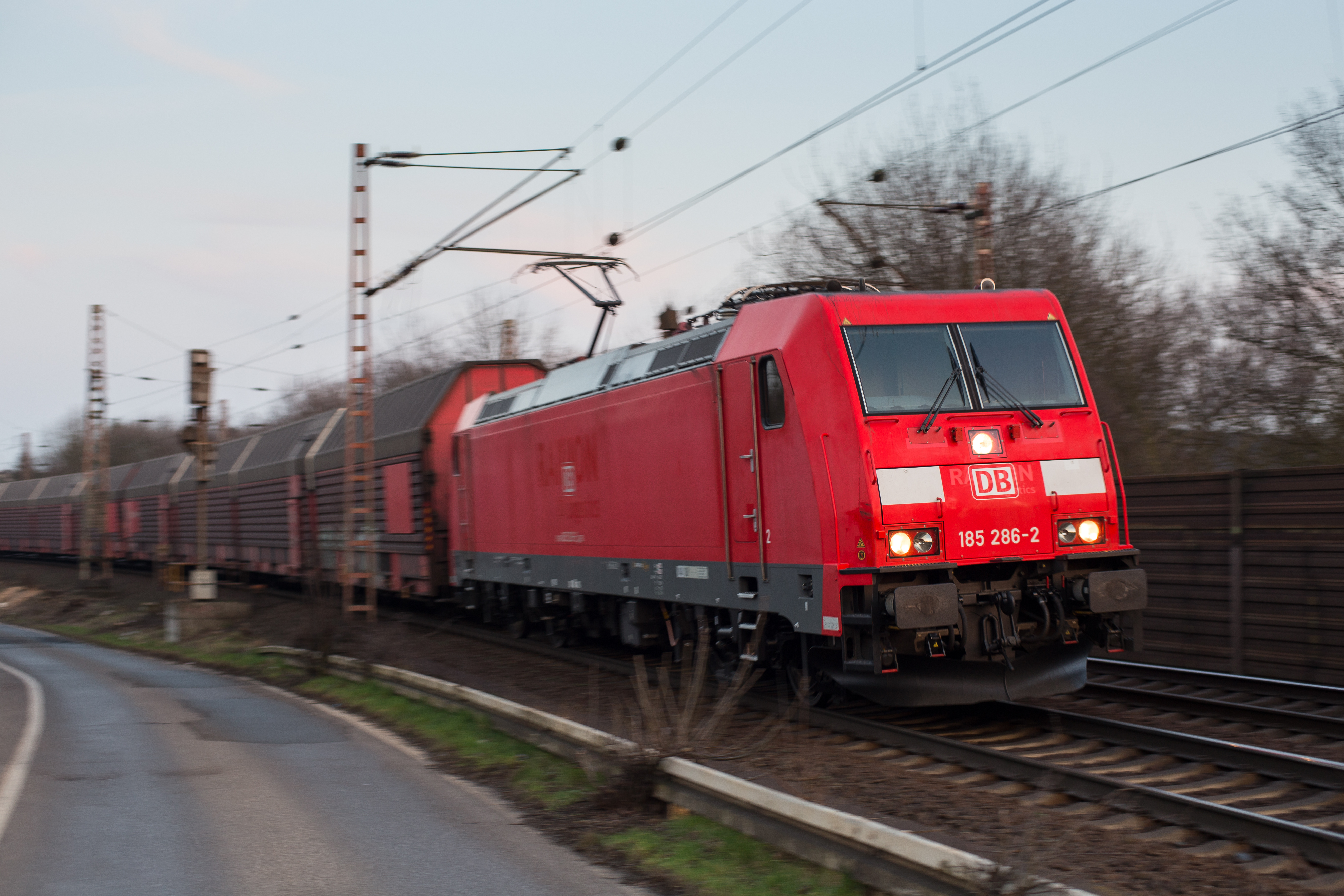 Electric locomotive class 185.2 (Bombardier TRAXX F140 AC2) operated by Deutsche Bahn AG, seen here at freight train bypass in Bornum district of Hannover, Germany.